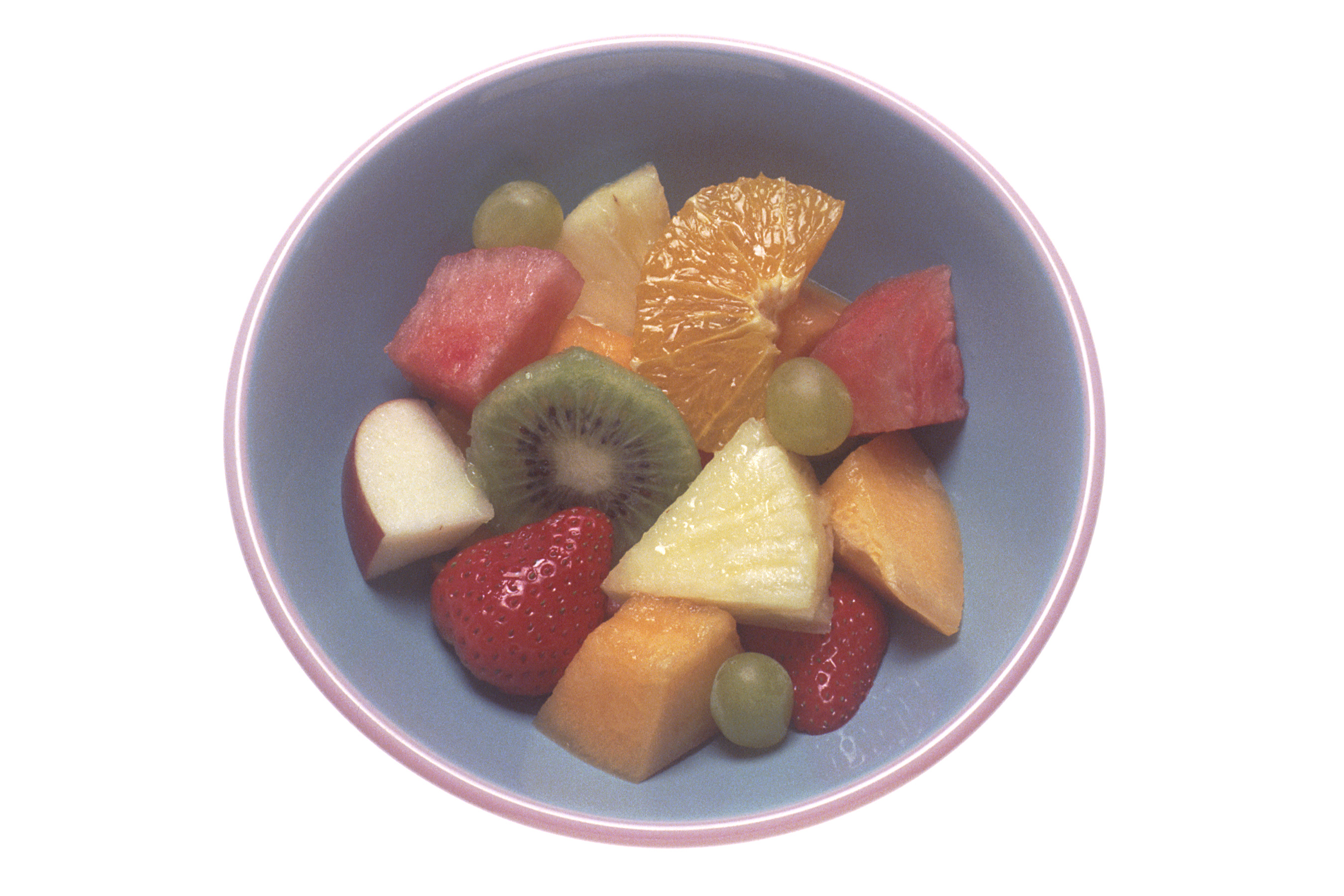 Title Fruit Salad Description A bowl of various slices of fruit including kiwi, strawberry, apple, orange, watermelon, pineapple, white grapes. Topics/Categories Food and Drink Type Color, Photo Source National Cancer Institute